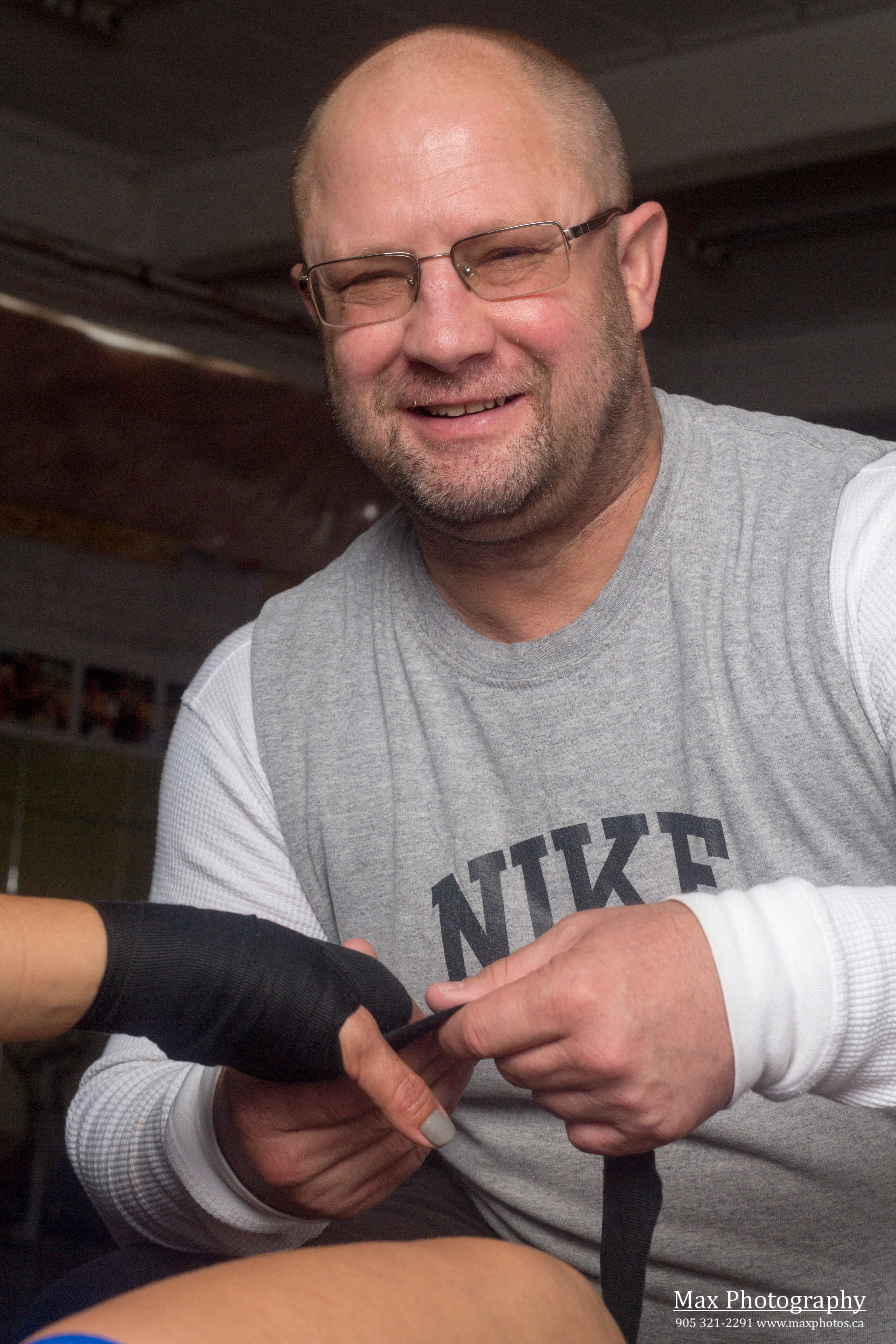 Billy Irwin wrapping a student's hands in preparation for a training session